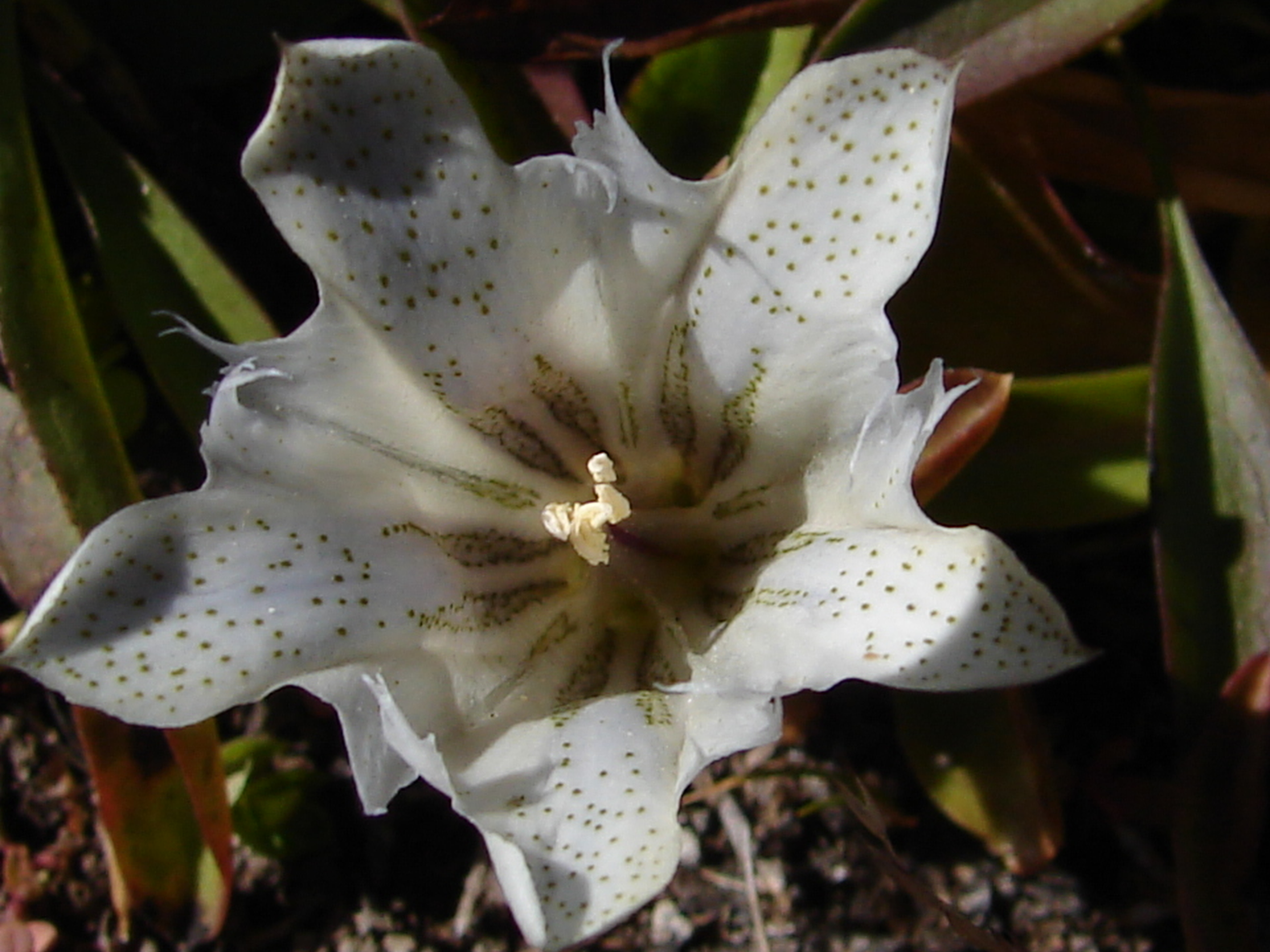 Gentiana newberryi at Lassen Volcanic National Park, California, USA